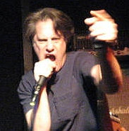 John Brannon. Mac's Bar, Lansing 11/8/08